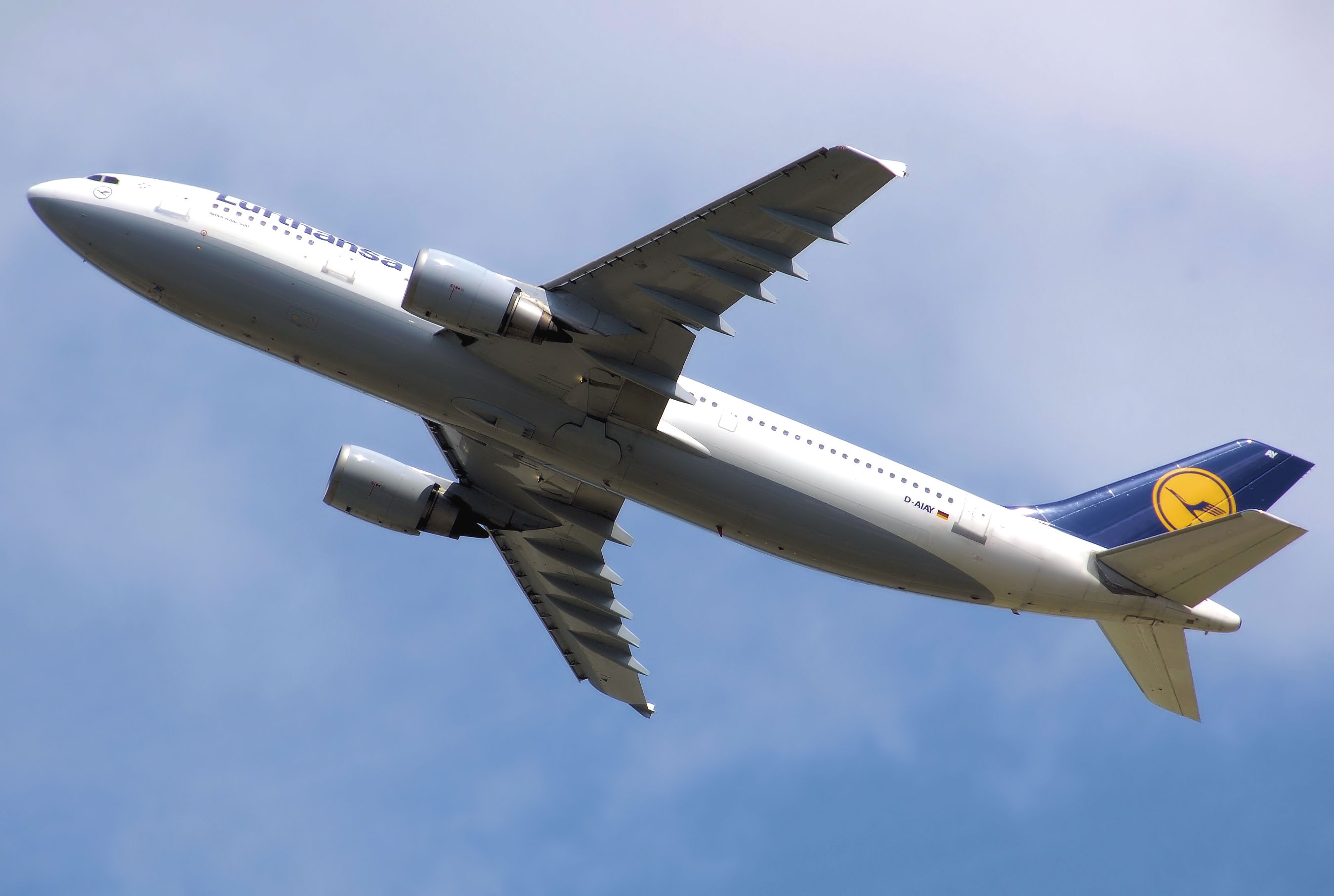 Lufthansa Airbus A300B4-600R (D-AIAY) takes off from London Heathrow Airport.